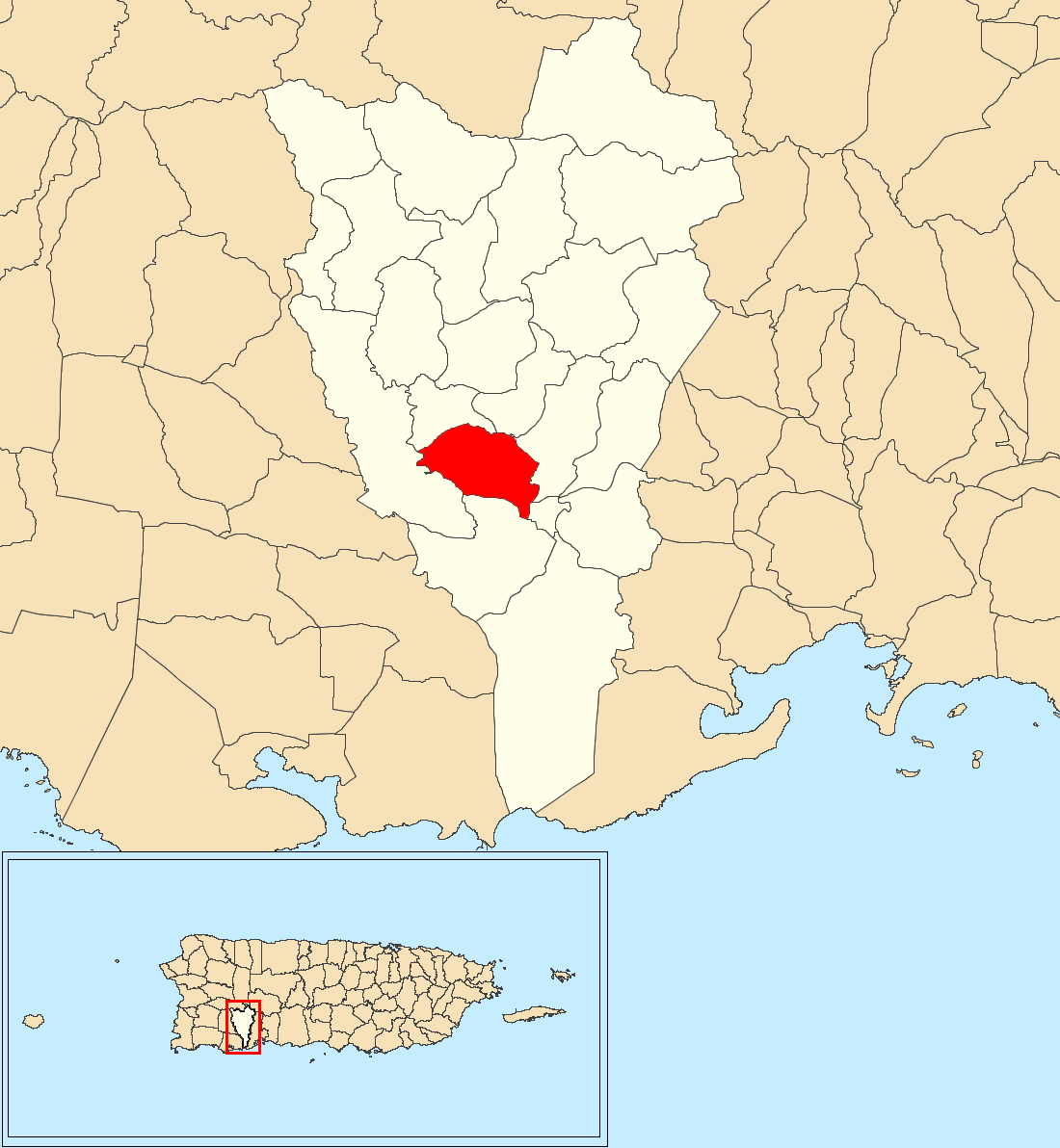 Almácigo Bajo, Yauco, Puerto Rico locator map